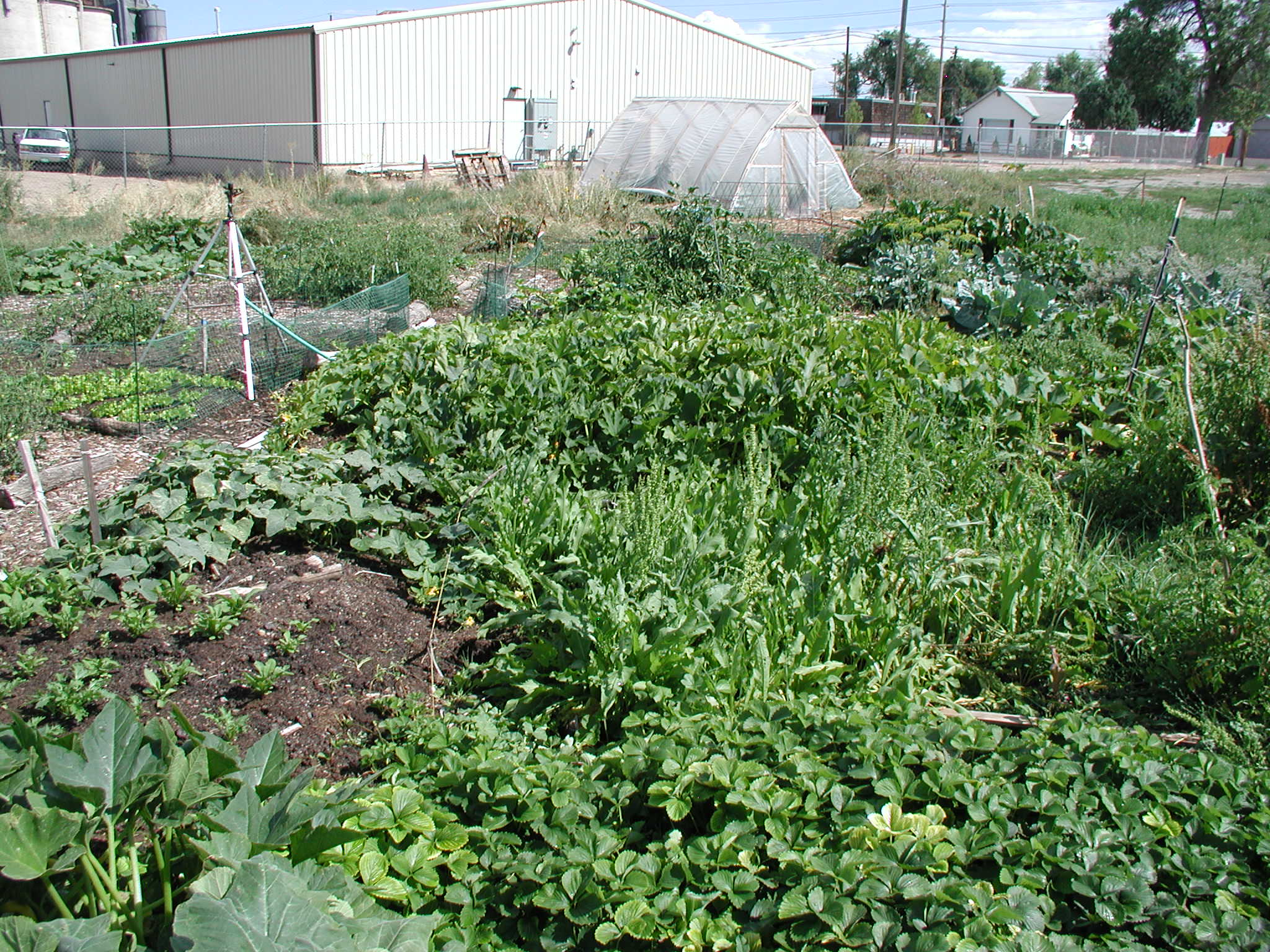 This photo shows one of the two impact sprinklers mounted on tripods operating from the feed drip irrigation system. The intermittent output from the sprinklers are regulated with a 60 gallon per hour drip controller.